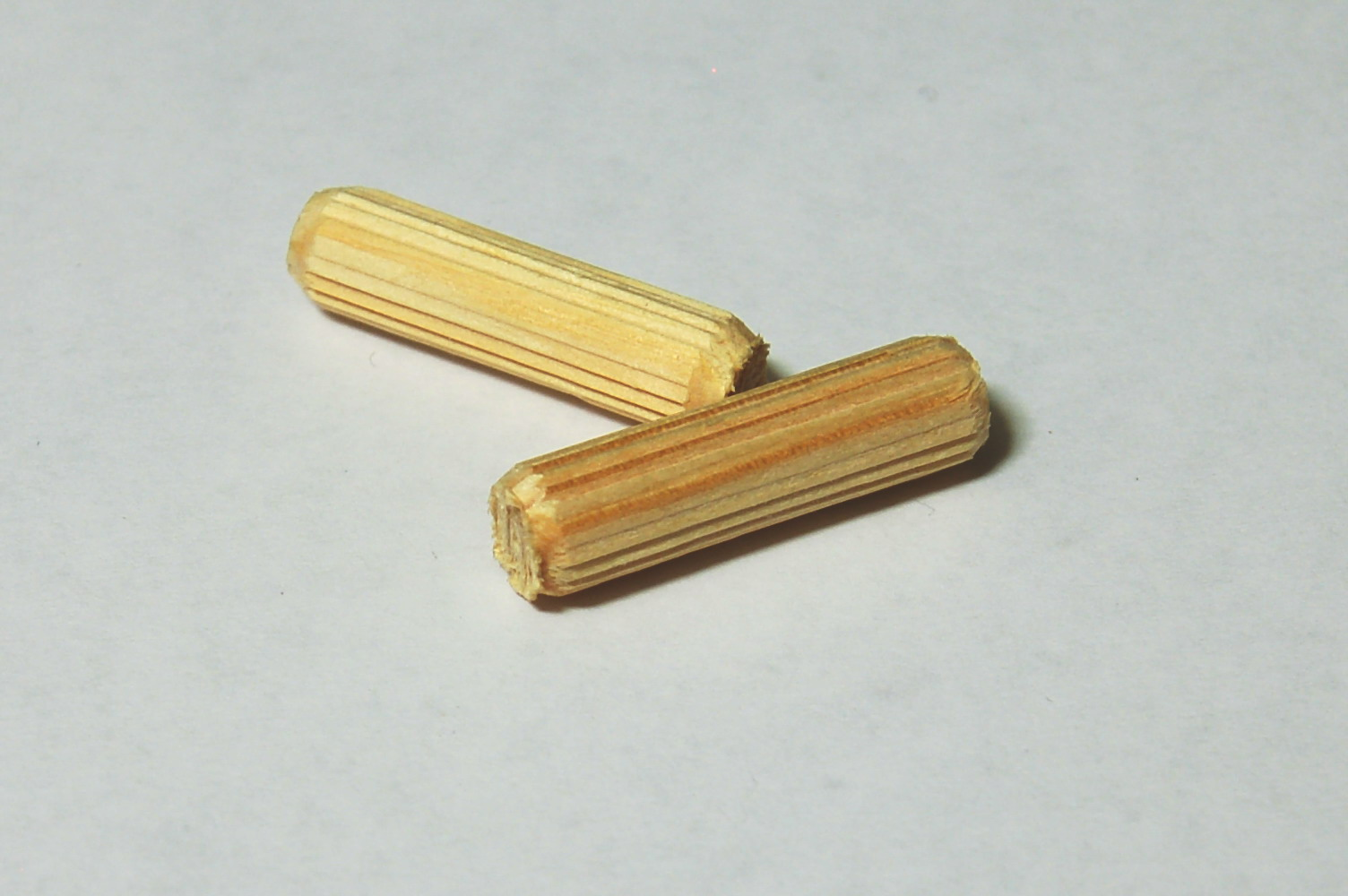 Fluted wood dowels